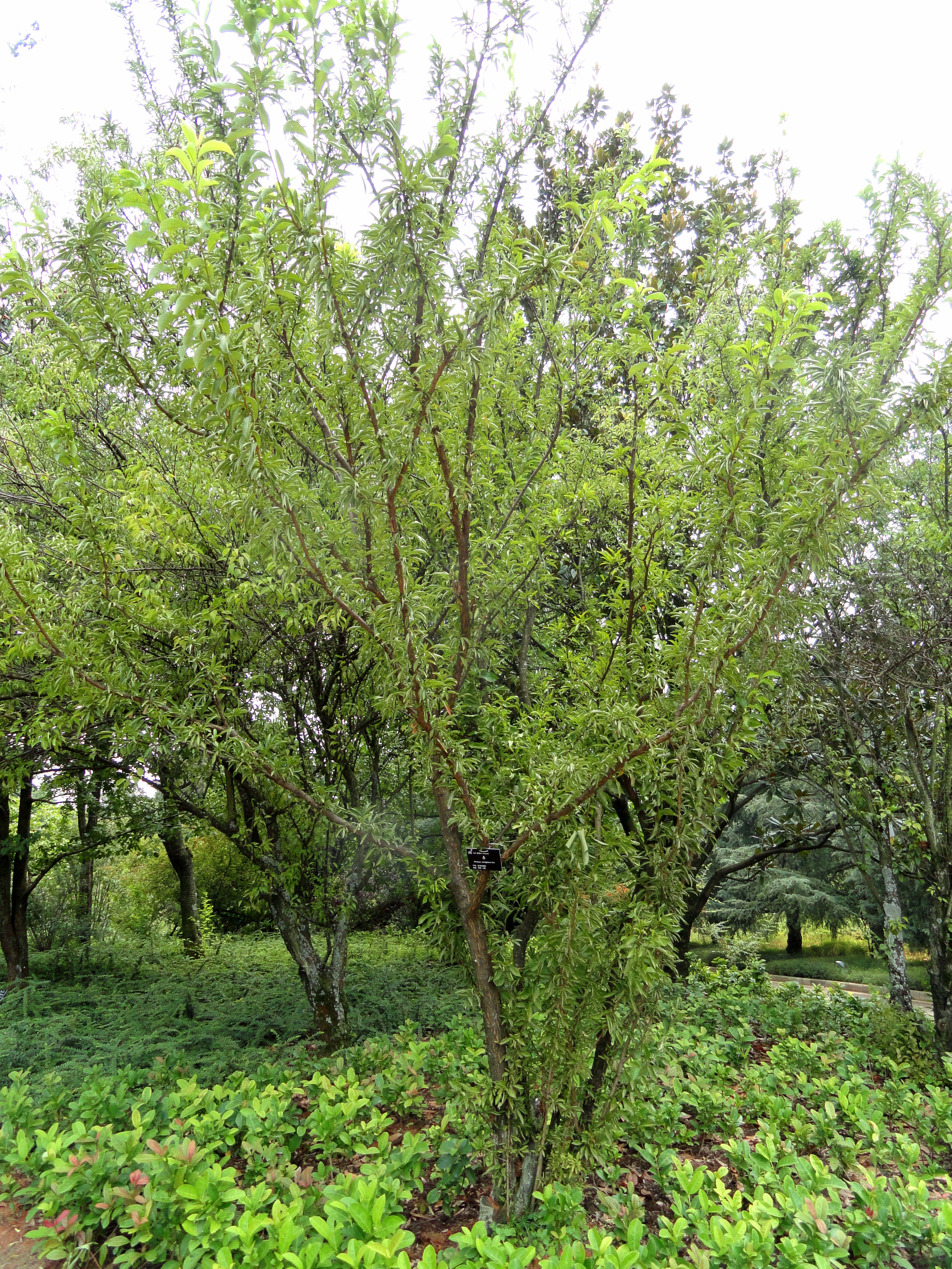 Plant specimen in the Kunming Botanical Garden, Kunming, Yunnan, China.